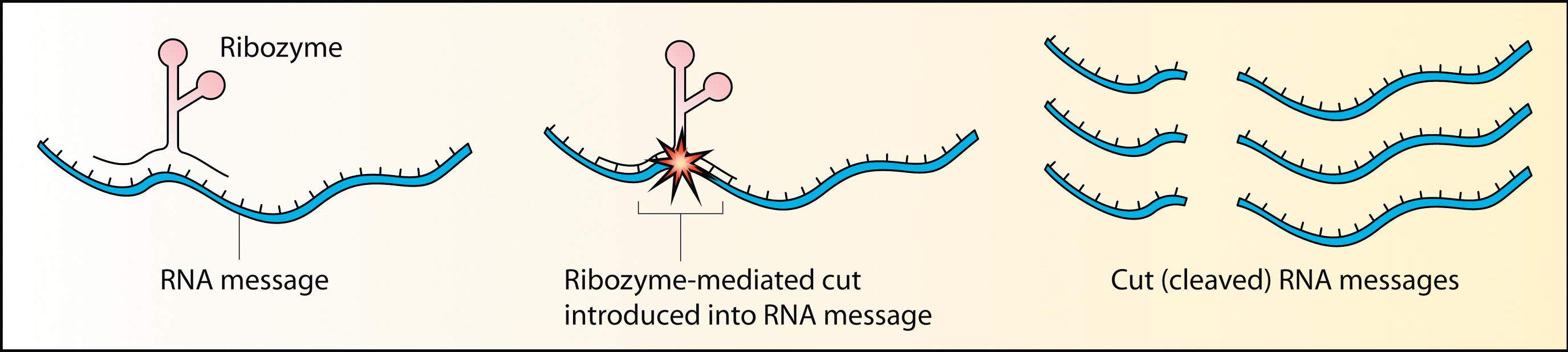 Schematic showing how ribozymes bind and cleave mRNA to prevent it from functioning.